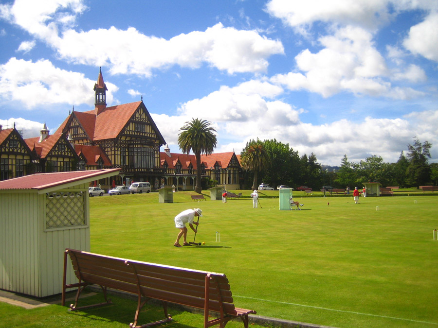 Museum and former Bath House, in Rotorua, New Zealand. New Zealand Historic Places Trust Register number: 141.